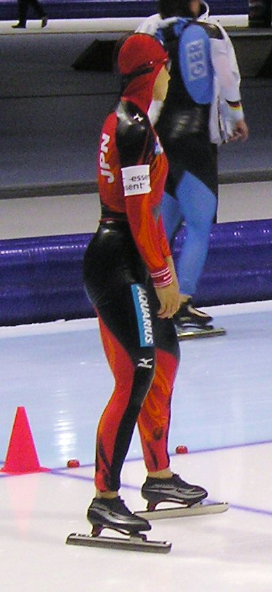 Tomomi Okazaki (JPN) at a World Cup in Thialf (Heerenveen, The Netherlands)